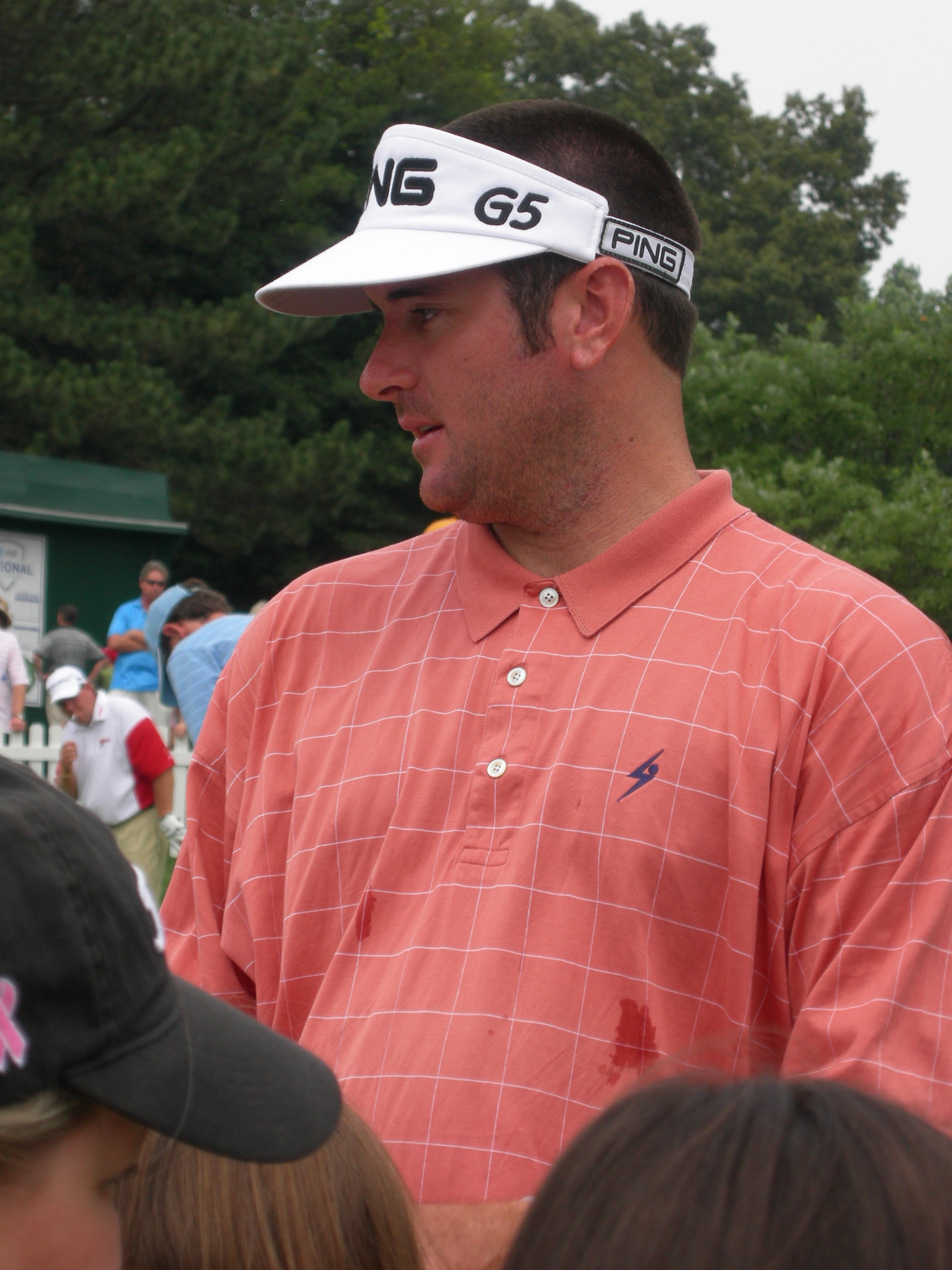 Bubba Watson signing autographs on the putting green of the Congressional Country Club during the Earl Woods Memorial Pro-Am prior to the 2007 AT&T National tournament.